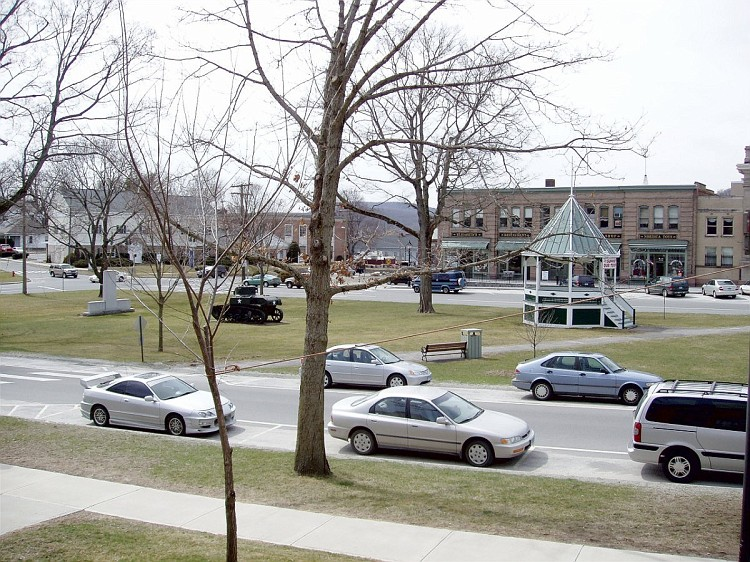 The town green in New Milford, Connecticut.